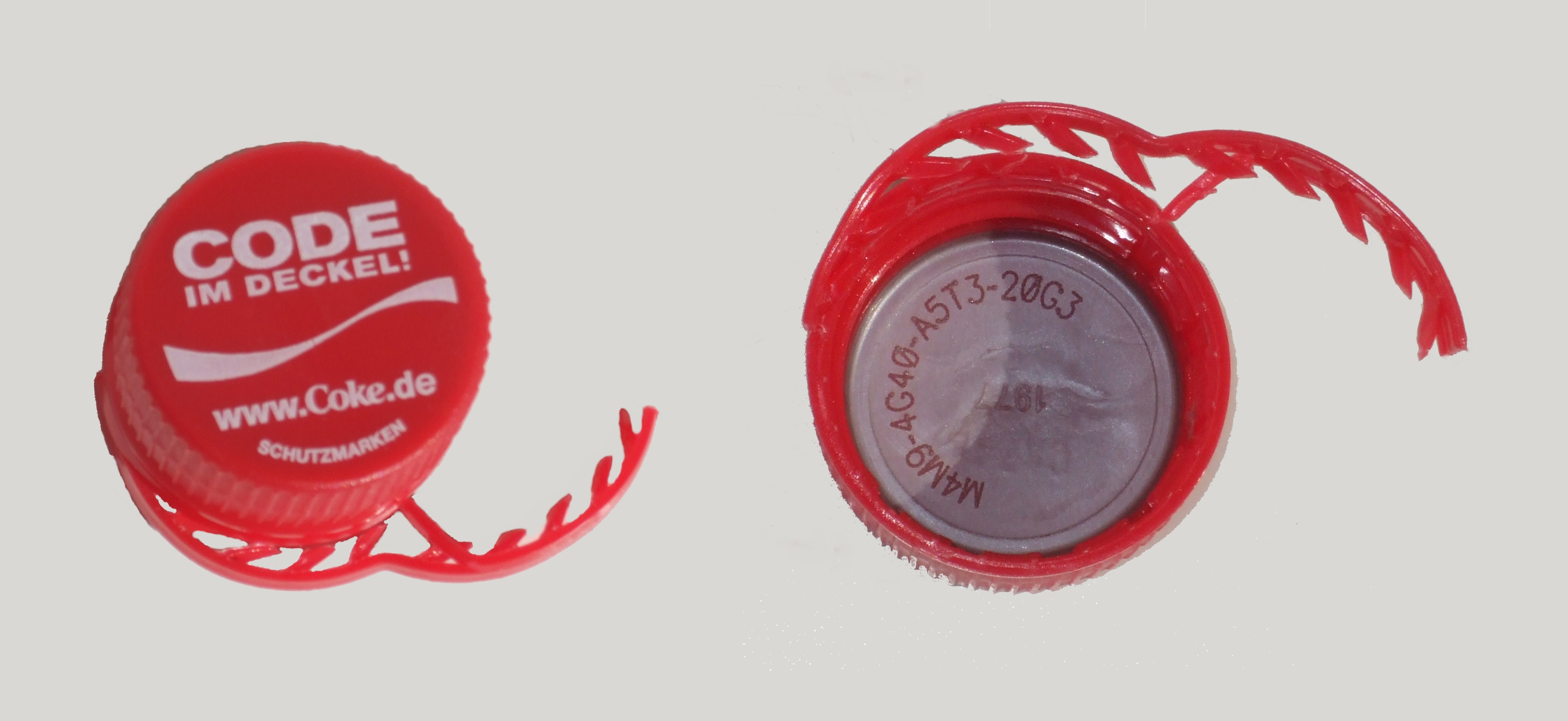 bottlecaps, Coca Cola with Code, inside